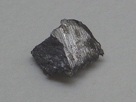 A small chunk of lanthanum metal